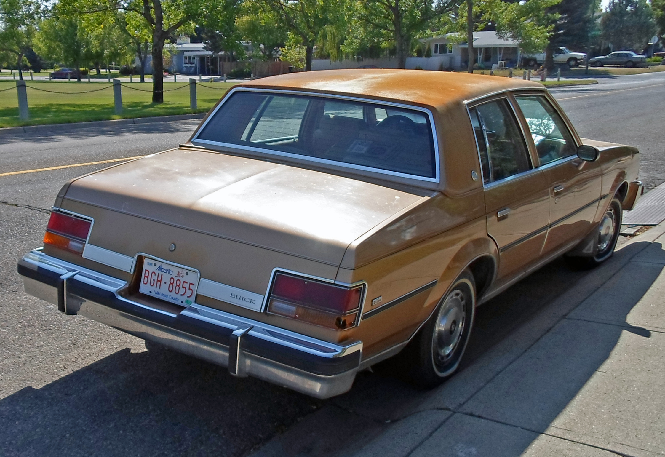 1980 Buick Century four-door sedan in Canadia.